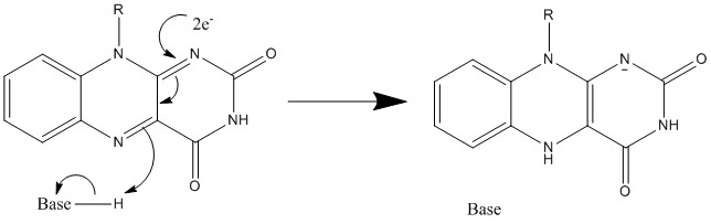 Gain of H- and formation of N